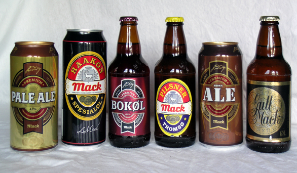 A selection of beers from Mack Brewery, Tromsø, Norway.